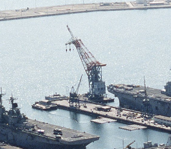 The floating crane YD 171 (350T GERCRANE, "Herman the German") at the Long Beach Naval Shipyard.